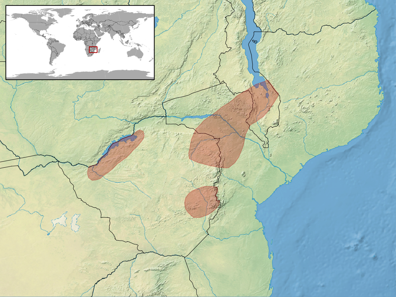 geographic distribution of Trachylepis lacertiformis